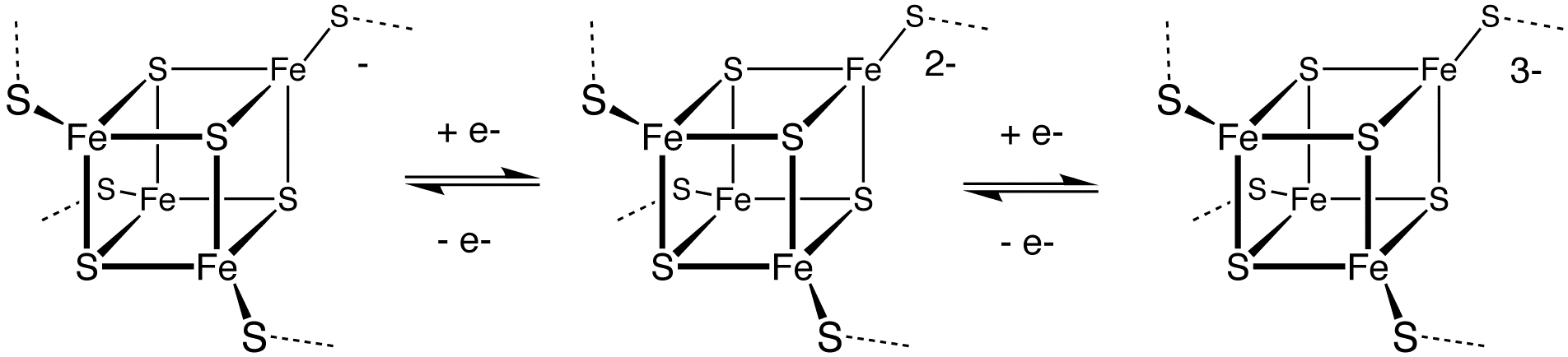 redox reactions for Fe4S4 clusters